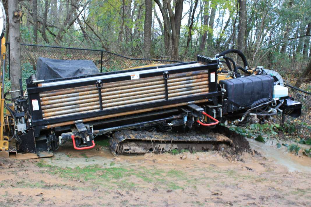 Geothermal drill machine in Wisconsin 12.3 Megapixel Canon Rebel XSi.